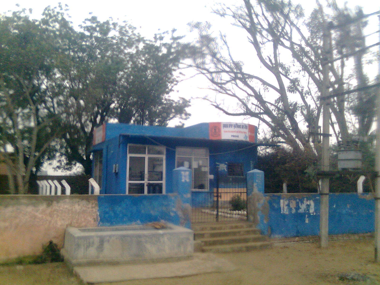 R.O. Plant in Husnar village of Sri Muktsar Sahib district in East Punjab